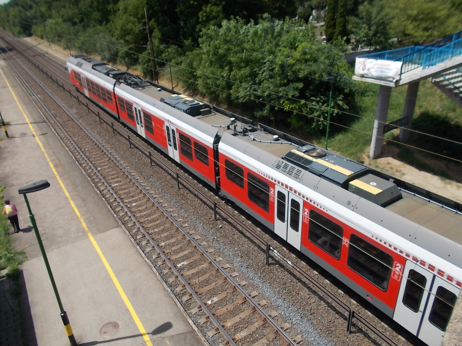 Bicske alsó train stop from the overpass bridge. - Táncsics Mihály and Prohászka Streets, Bicske, Fejér County, Hungary.